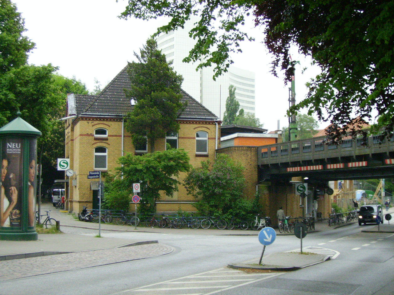 Bahrenfeld railway station outside view in 2008 (Hermes building in the back)